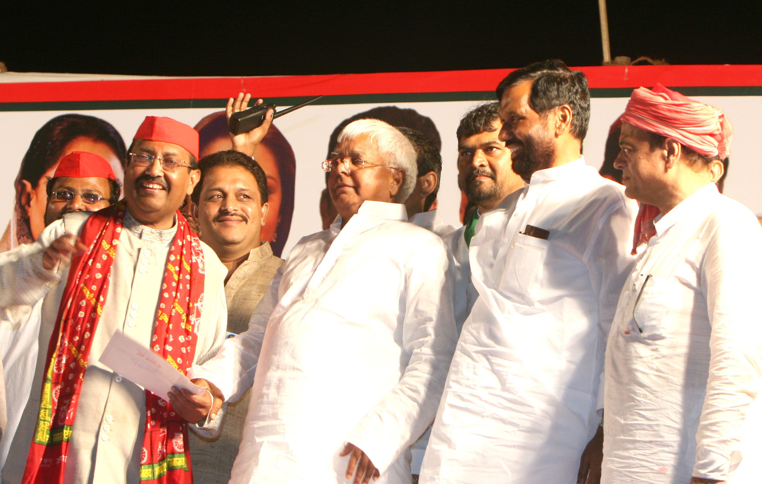 High-profile politicians Lallu Prasad Yadav, Ram Vilas Paswan and Amar Singh join a rally in Mumbai.